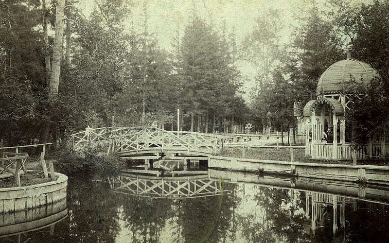 Intendantskiy garden